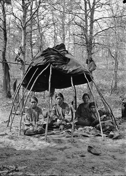 Four Winnebago women sitting in a chipoteke, a wigwam-like traditional structure.